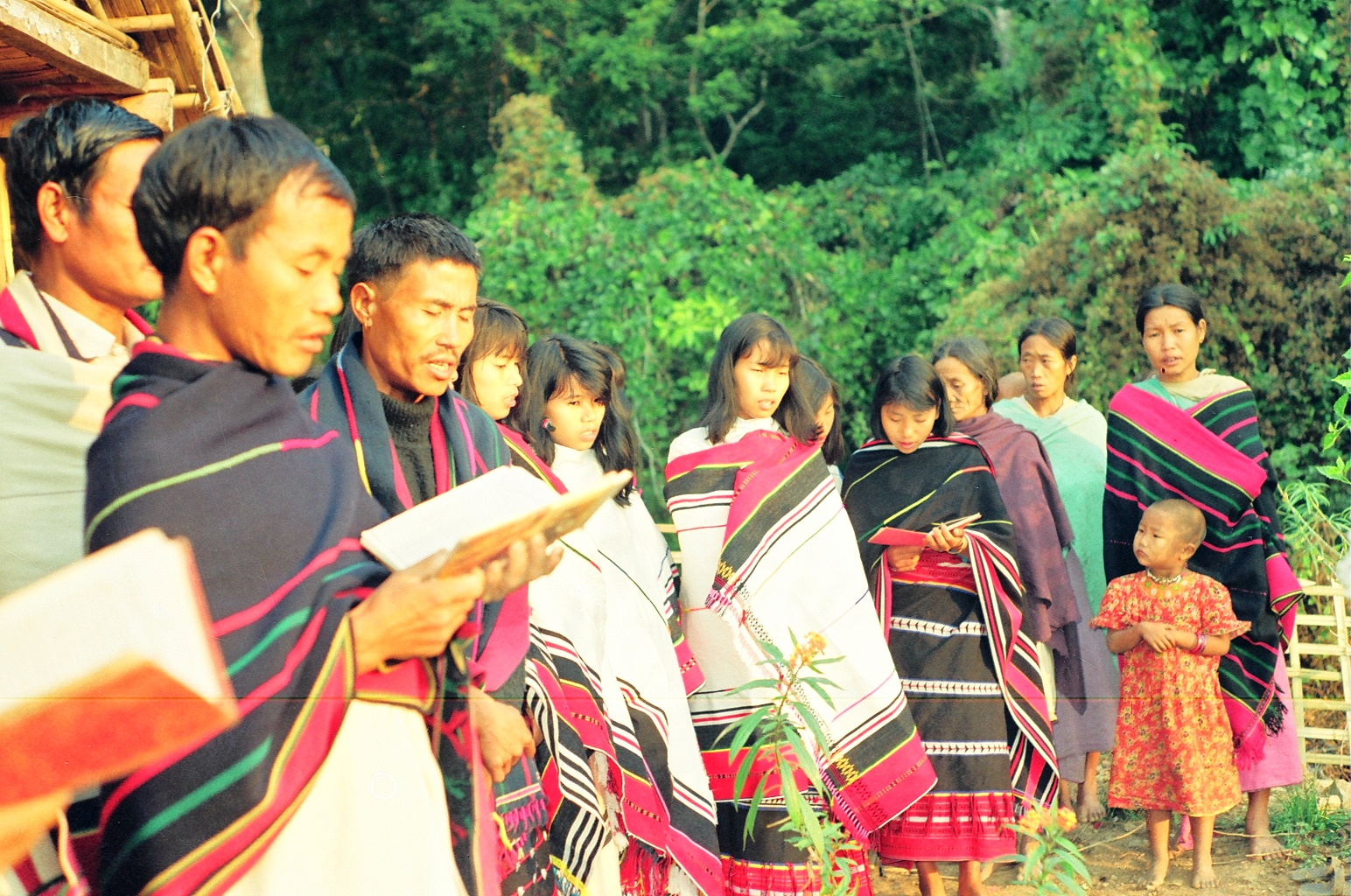 Heraka Prayer